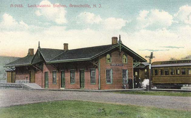 Postcard of the Branchville, New Jersey station on the Sussex Railroad.